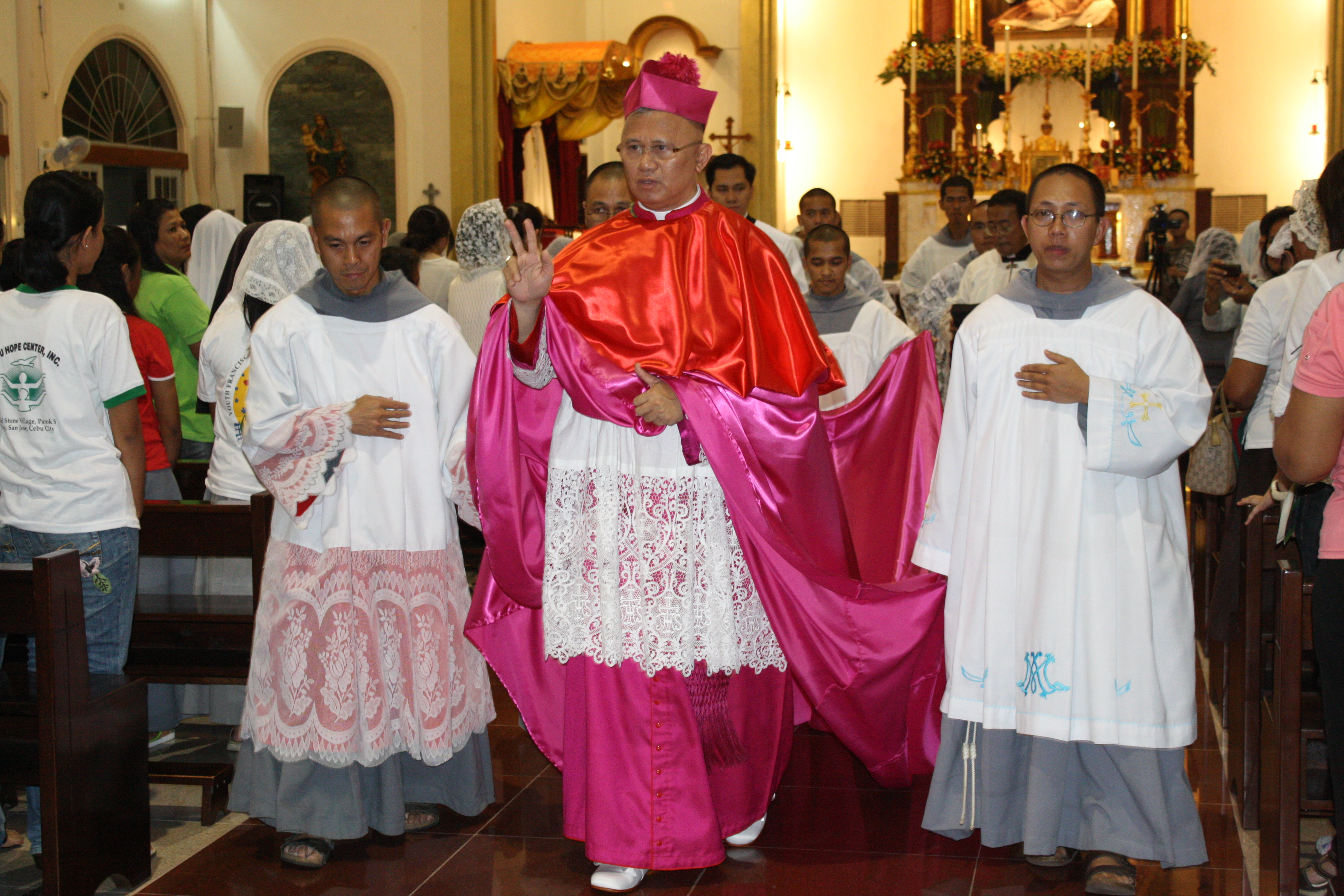 Archbishop Jose Palma of Cebu wears a cappa magna on his way to celebrate the Solemn Pontifical Mass at the church of Mary Coredemptrix in Cebu City, Philippines. Photo by Arnold Carl Fernan Sancover.